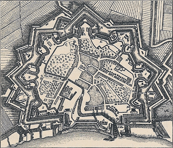 Map of Tönning at the time of the Great Northern War (1700-1720).